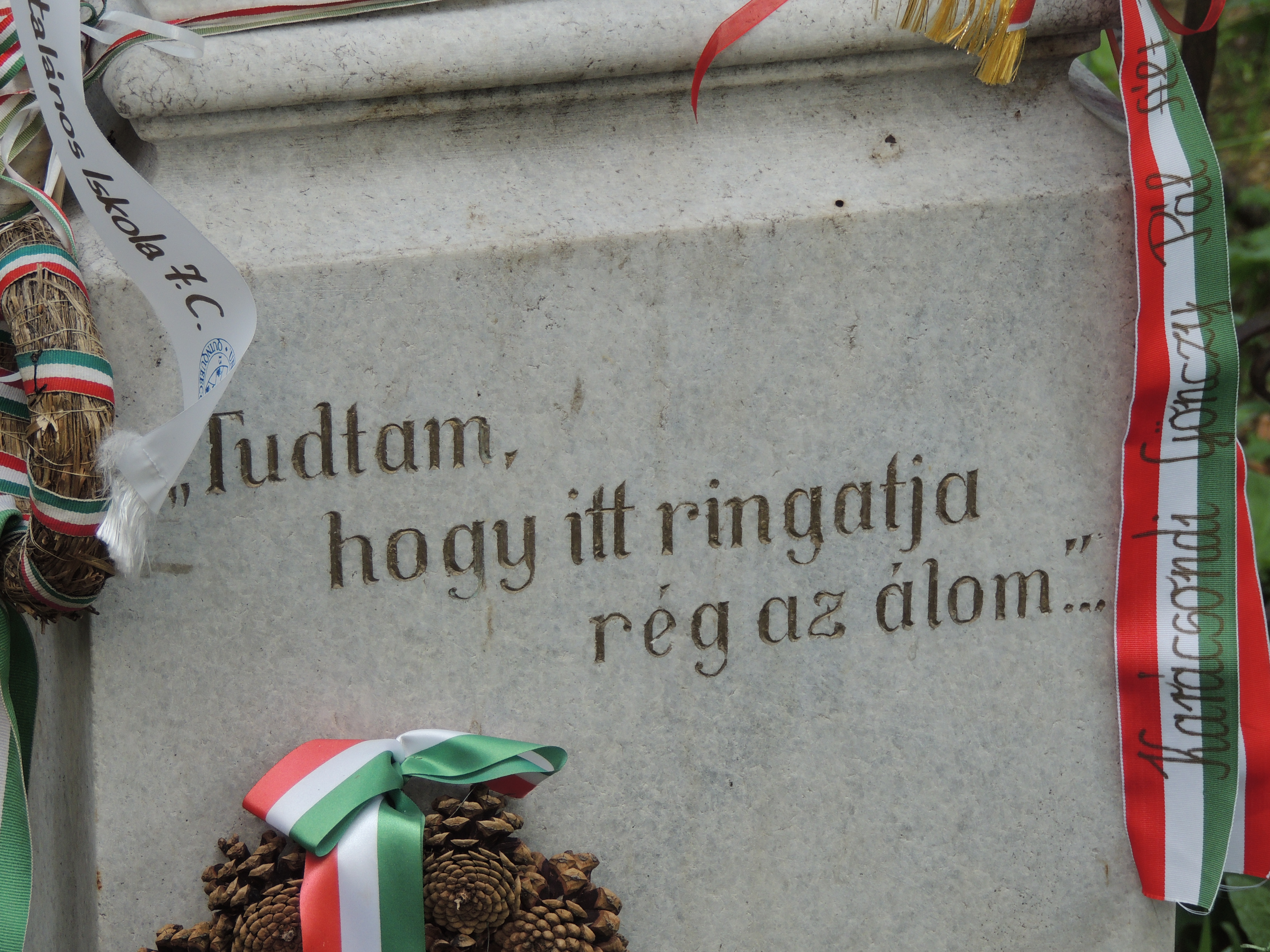 Epitaph of Aletta van der Maet, wife of János Apáczai Csere in the Cemetery Házsongárd, Cluj-Napoca – quotation from the poem Tavasz a Házsongárdi temetőben ("Spring in the Cemetery Házsongárd") by Lajos Áprily. „Tudtam,hogy itt ringatjarég az álom…” ["I knew that the dream has long been swinging her here…"]